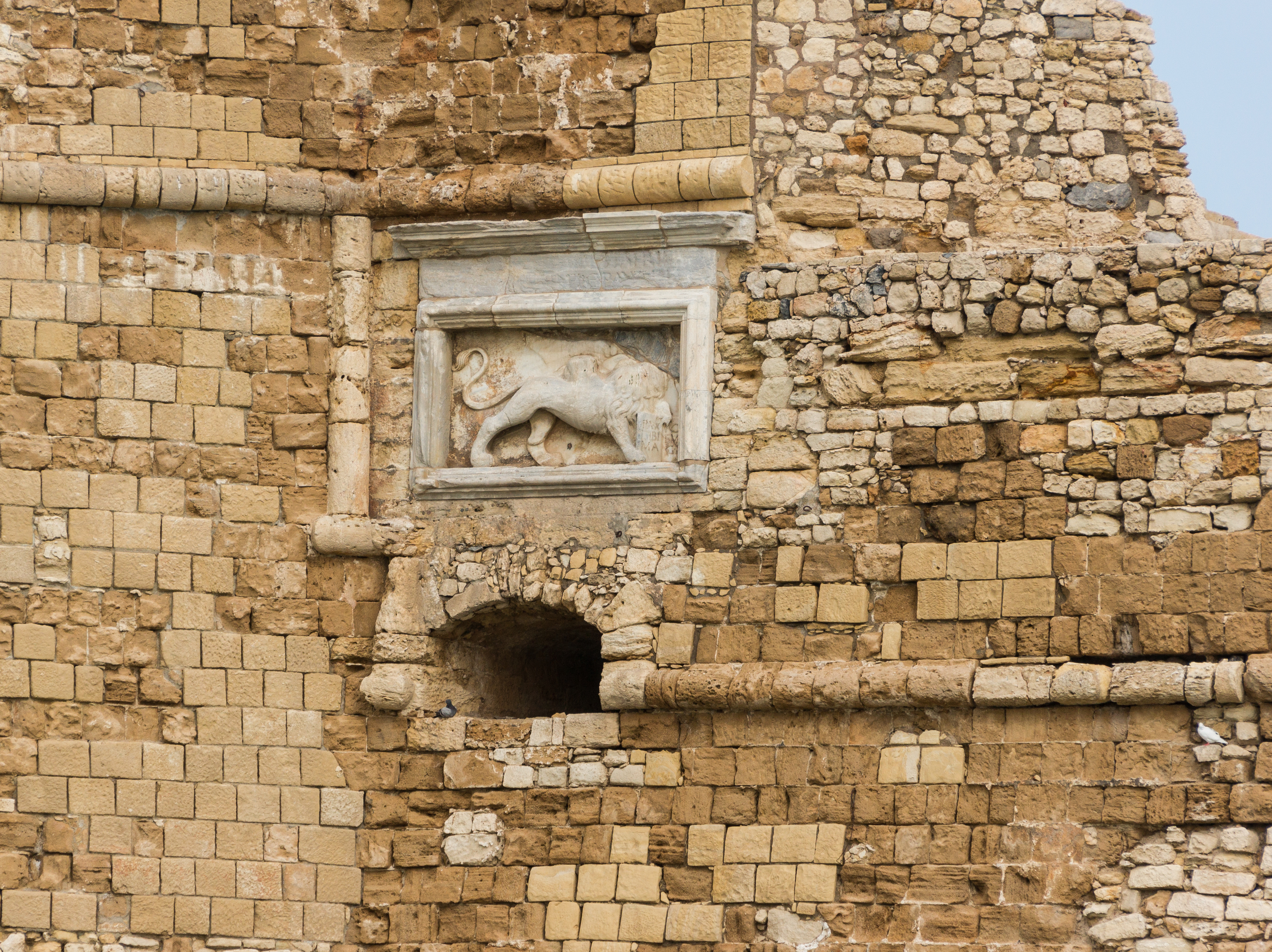 Detail of the venetian fort (Koulès) at Heraklion harbour, Crete, Greece